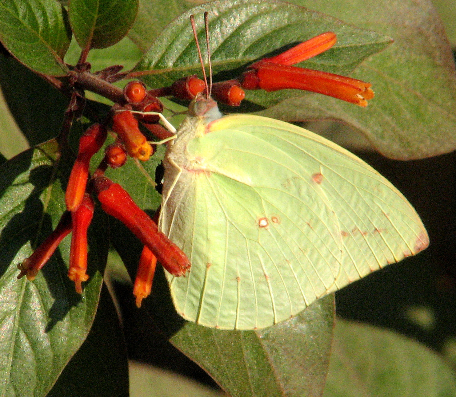 Common Emigrant or Lemon Emigrant (Catopsilia pomona), Jaipur, India